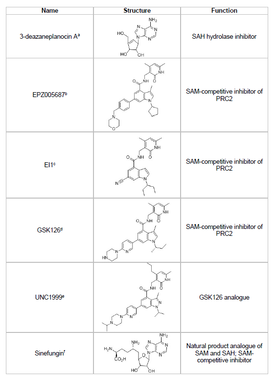 List of EZH2 inhibitors including DZNep, EPZ005687, EI1, GSK126, UNC1999, and sinefungin